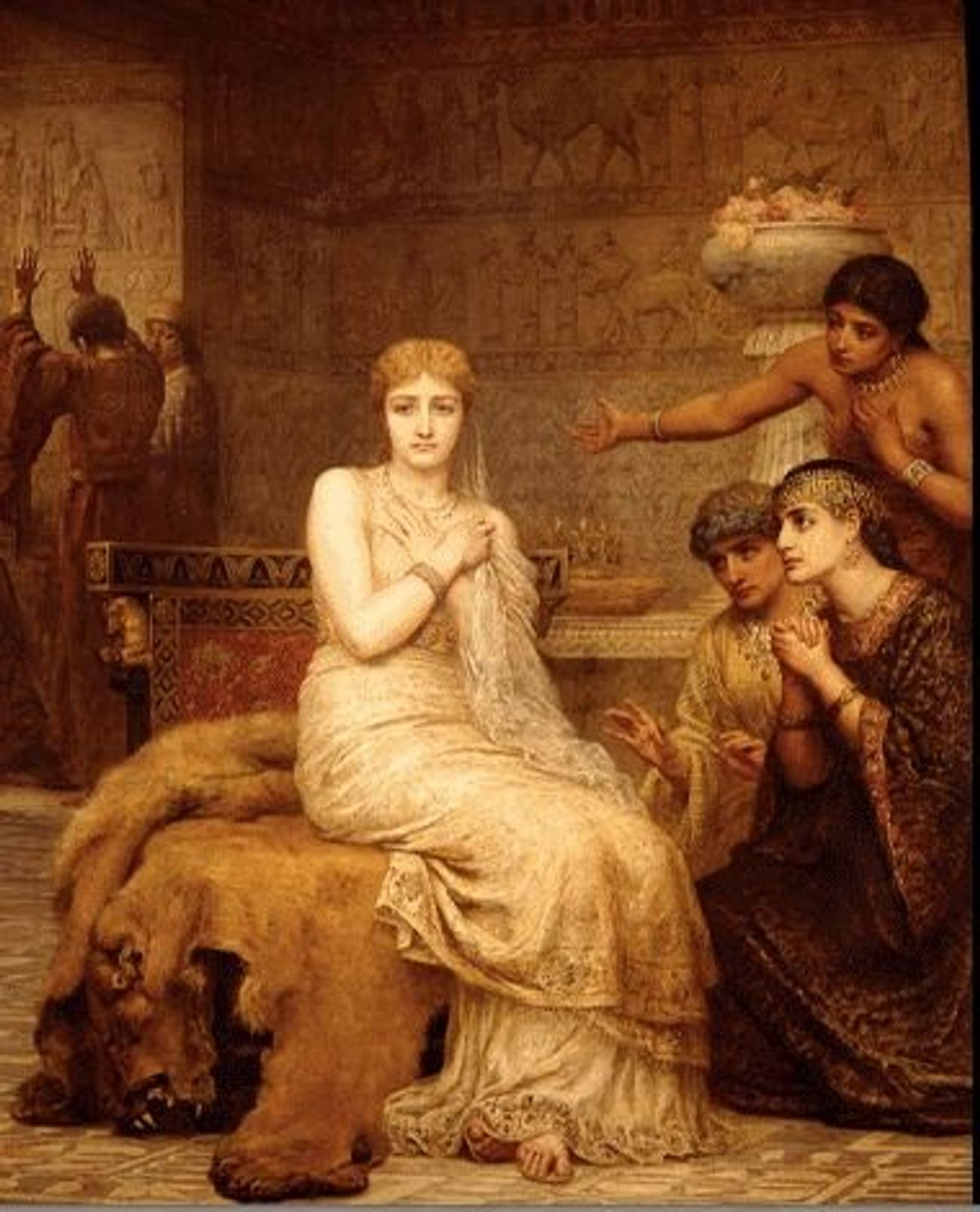 Vashti Refuses the King's Summons, painting by Edwin Long